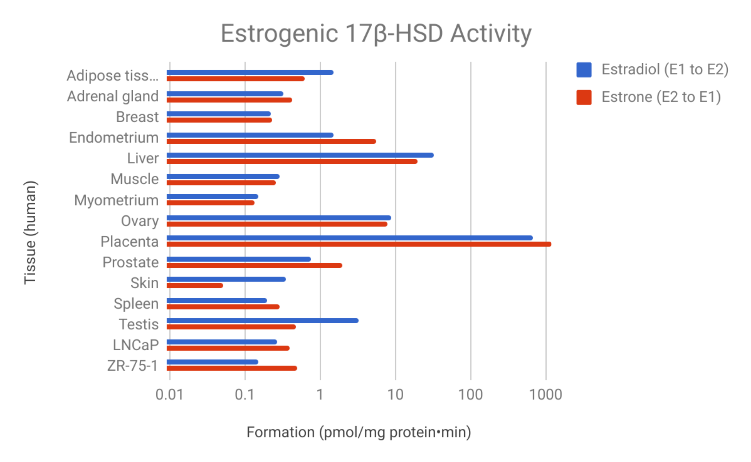 Distribution of estrogen 17β-hydroxysteroid dehydrogenase activities (estradiol (E2) and estrone (E1) formation) in human tissues. Source of values: (March 1992). "Distribution of 17 beta-hydroxysteroid dehydrogenase gene expression and activity in rat and human tissues". J. Steroid Biochem. Mol. Biol. 41 (3-8): 597–603. PMID 1314080.